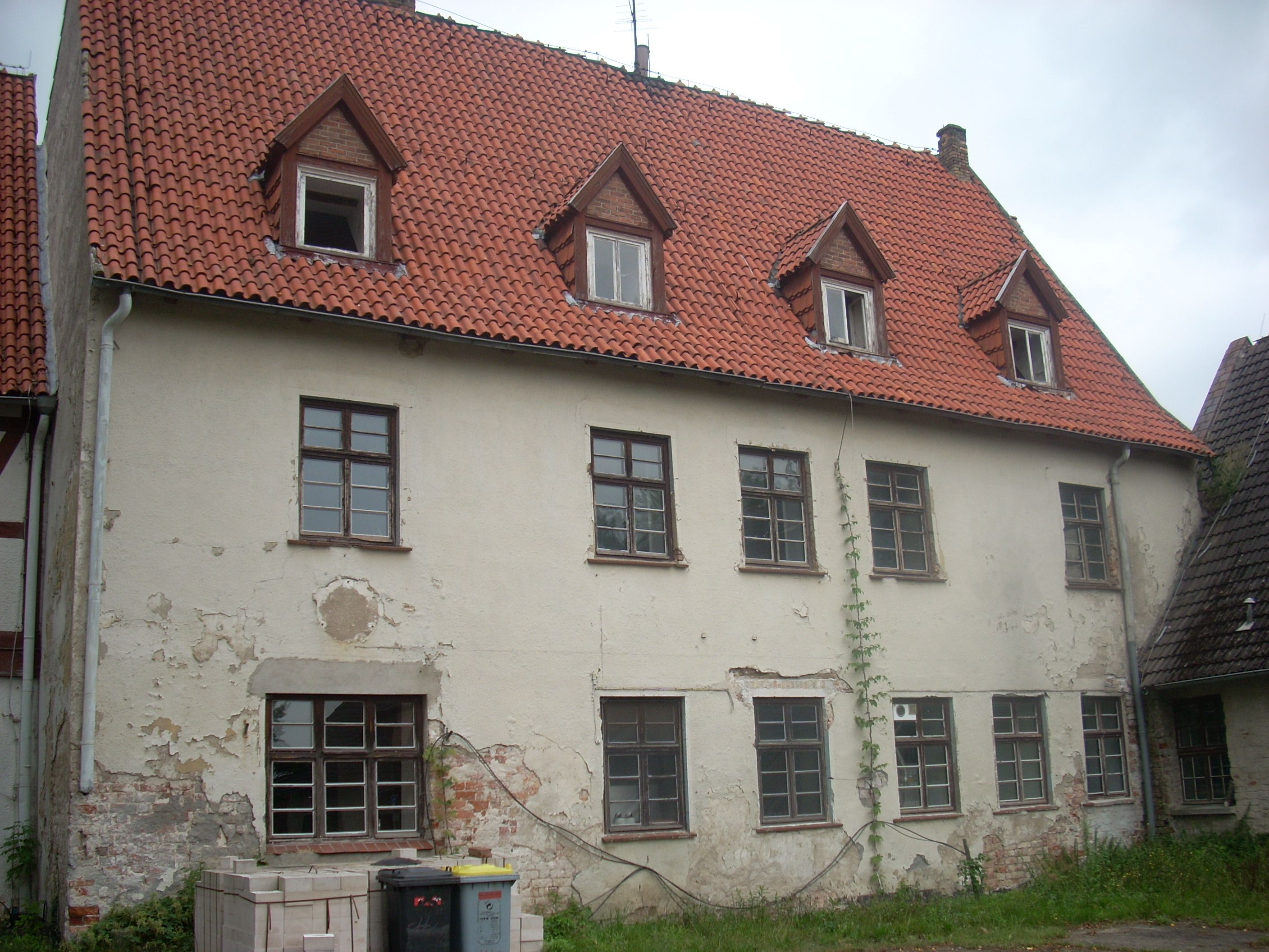 The south building from the Monastery Rühn